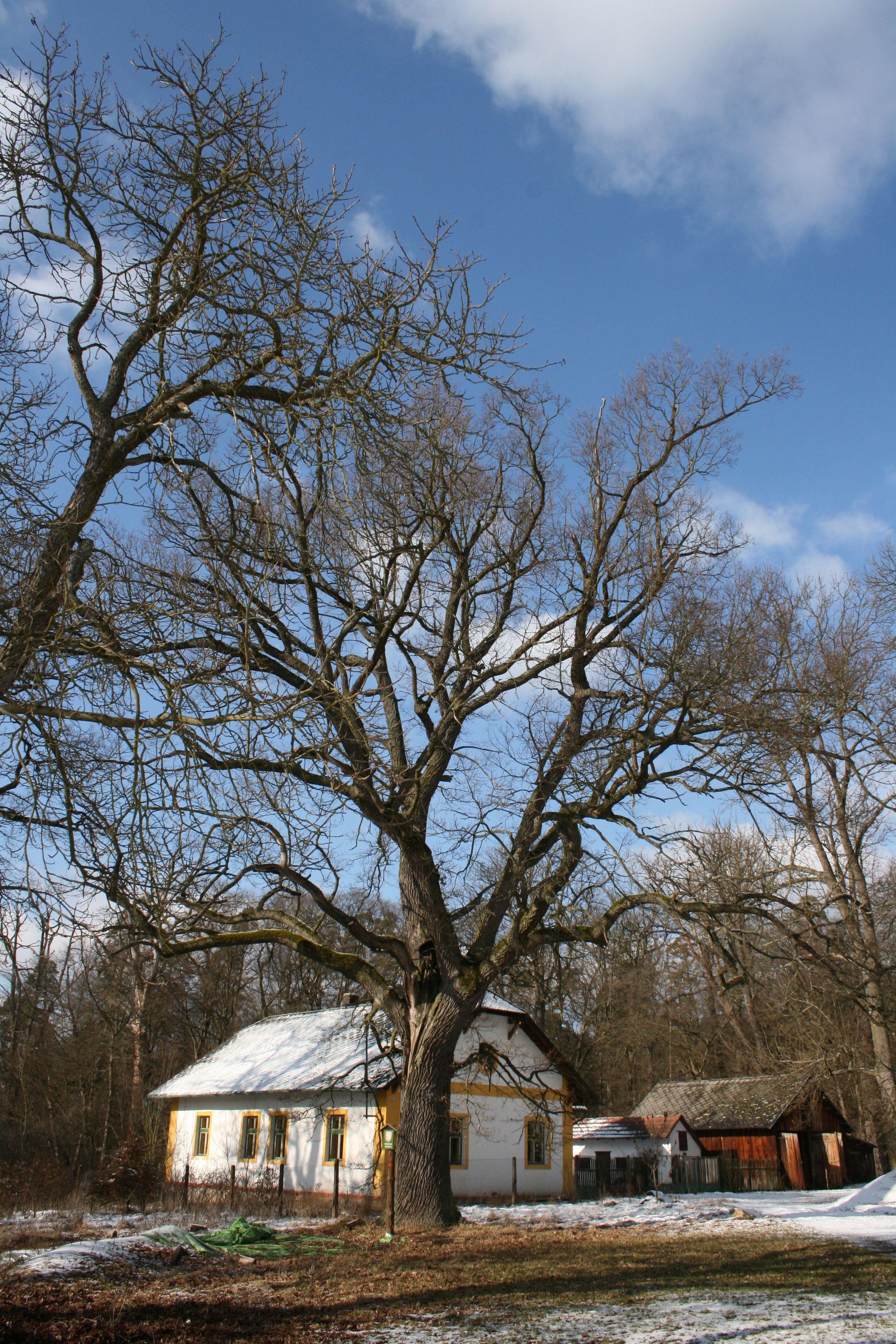 Nature park Černá hora, Tábor District, Czech Republic.